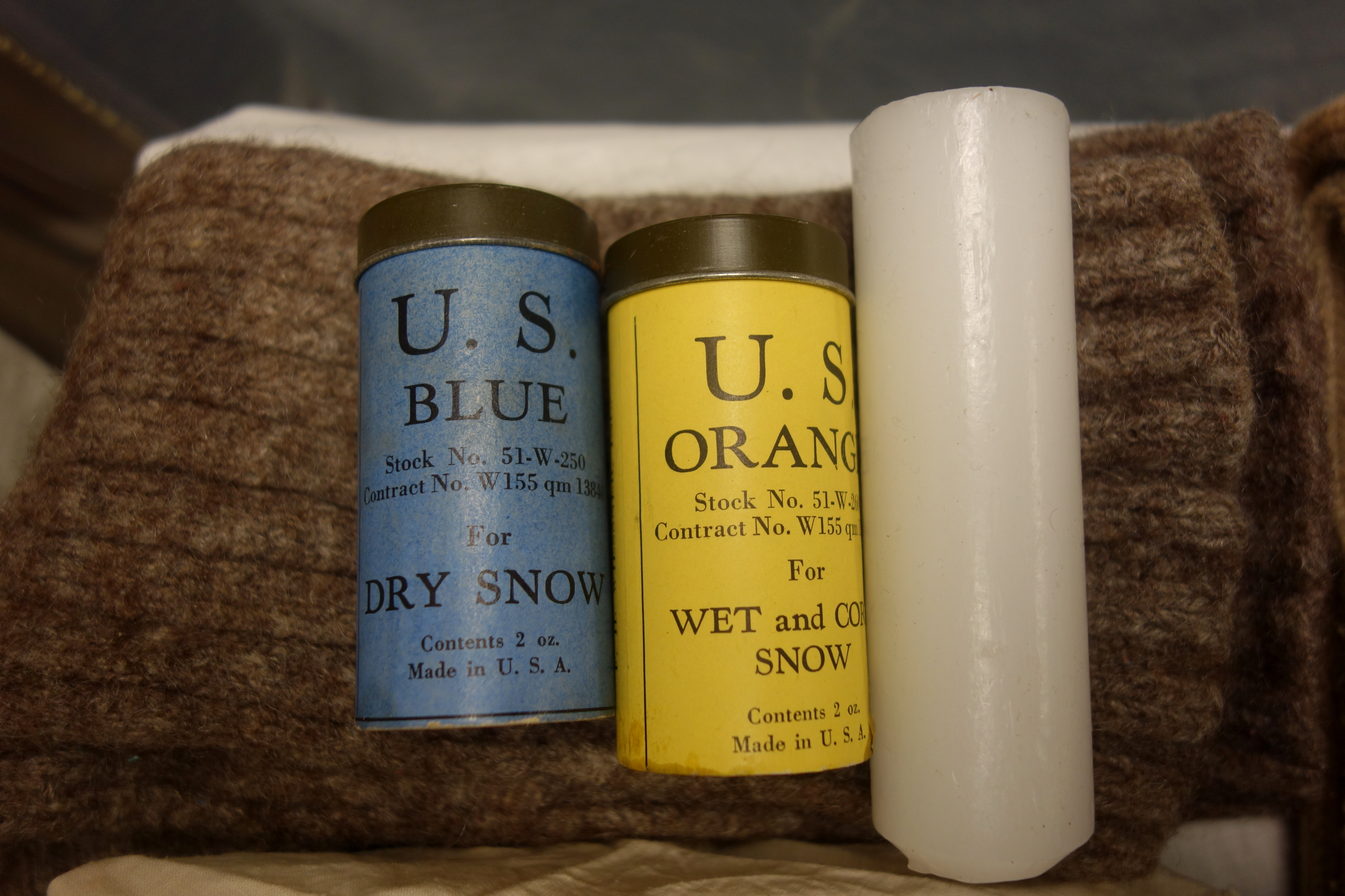 Exhibit in the Fort Devens Museum, 94 Jackson Road #305, Devens, Massachusetts, USA.